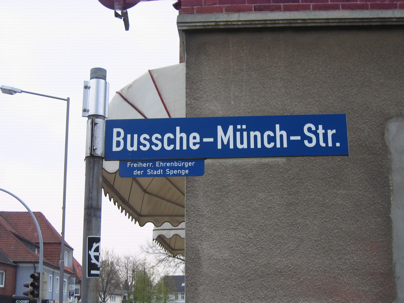 Spenge, District of Herford, North Rhine-Westphalia, Germany.